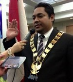 Oath Taking and Inauguration 2014 National Board of Director JCI Indonesia